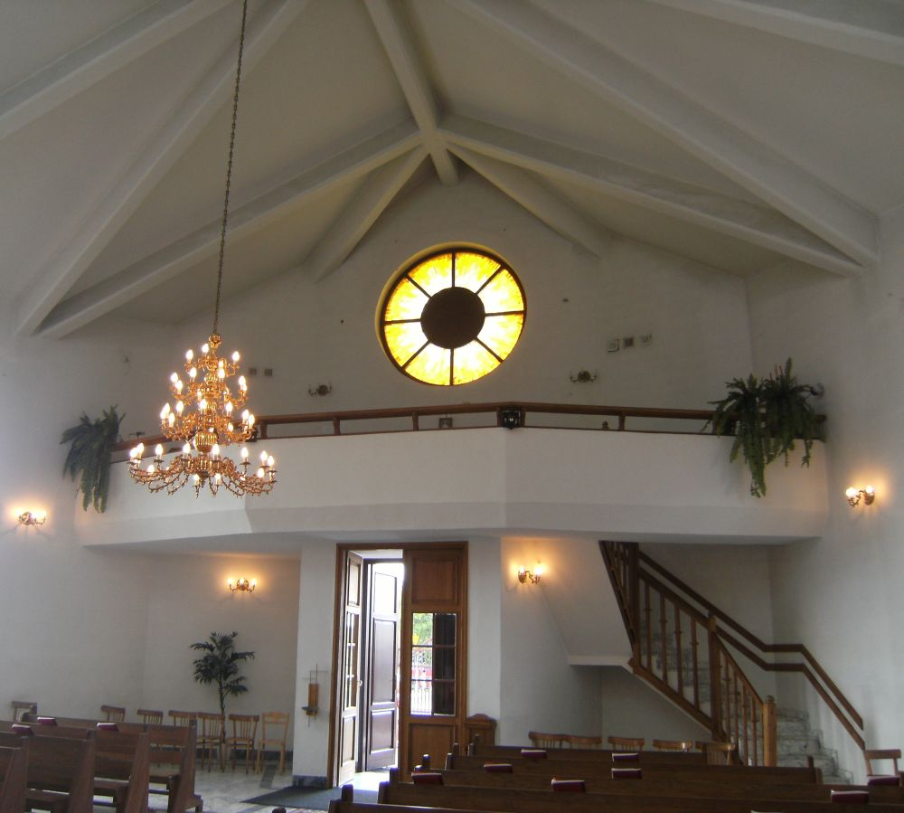 Old Catholic Mariavite Church in Warsaw